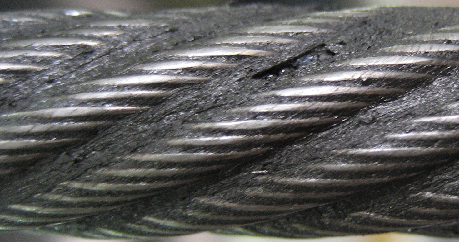 Section of left-hand ordinary lay wire rope